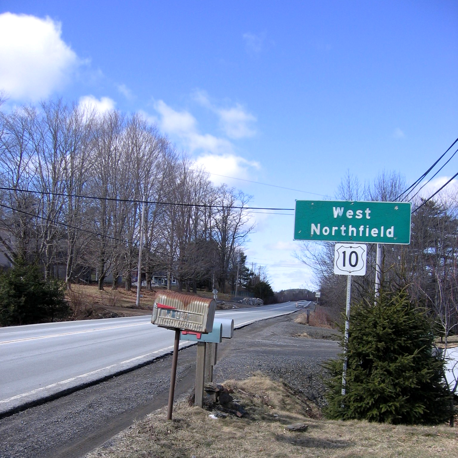 Route sign at roadside